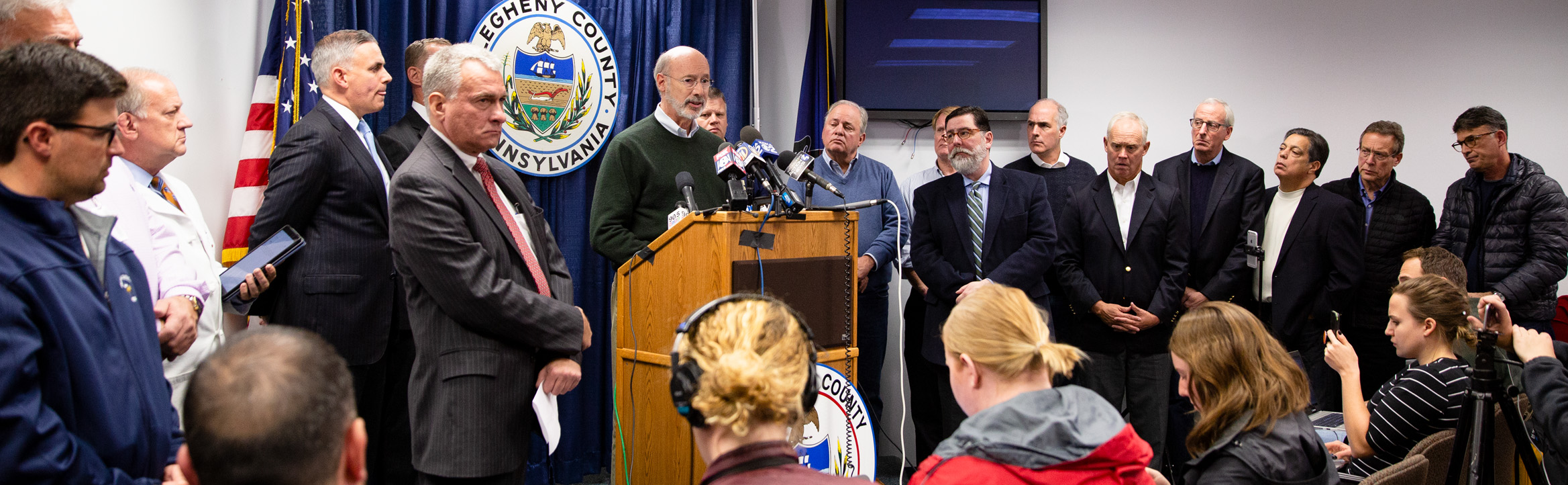 Governor Wolf Gives Remarks Regarding Pittsburgh Shooting and Participates in Vigil Pittsburgh synagogue shooting